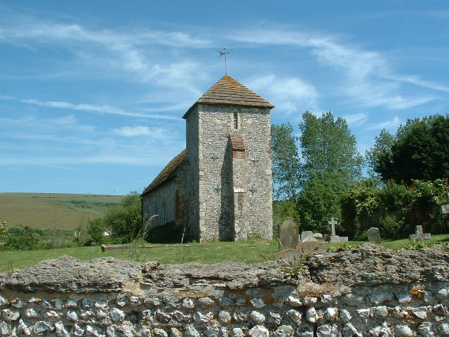 Botolphs Church. Near the middle of this grid square.